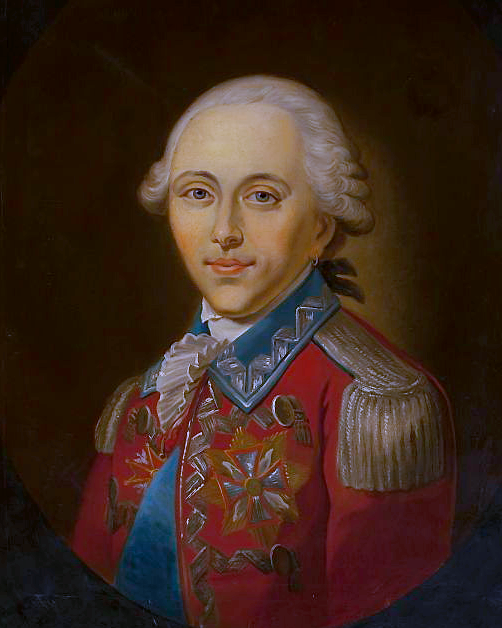 Portrait of Wincenty Potocki (1740-1825)